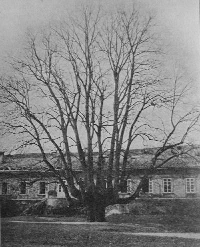 Lime tree in Velké Opatovice, Czech Republic. Memorable tree. Historical photo by Jan Vilím.